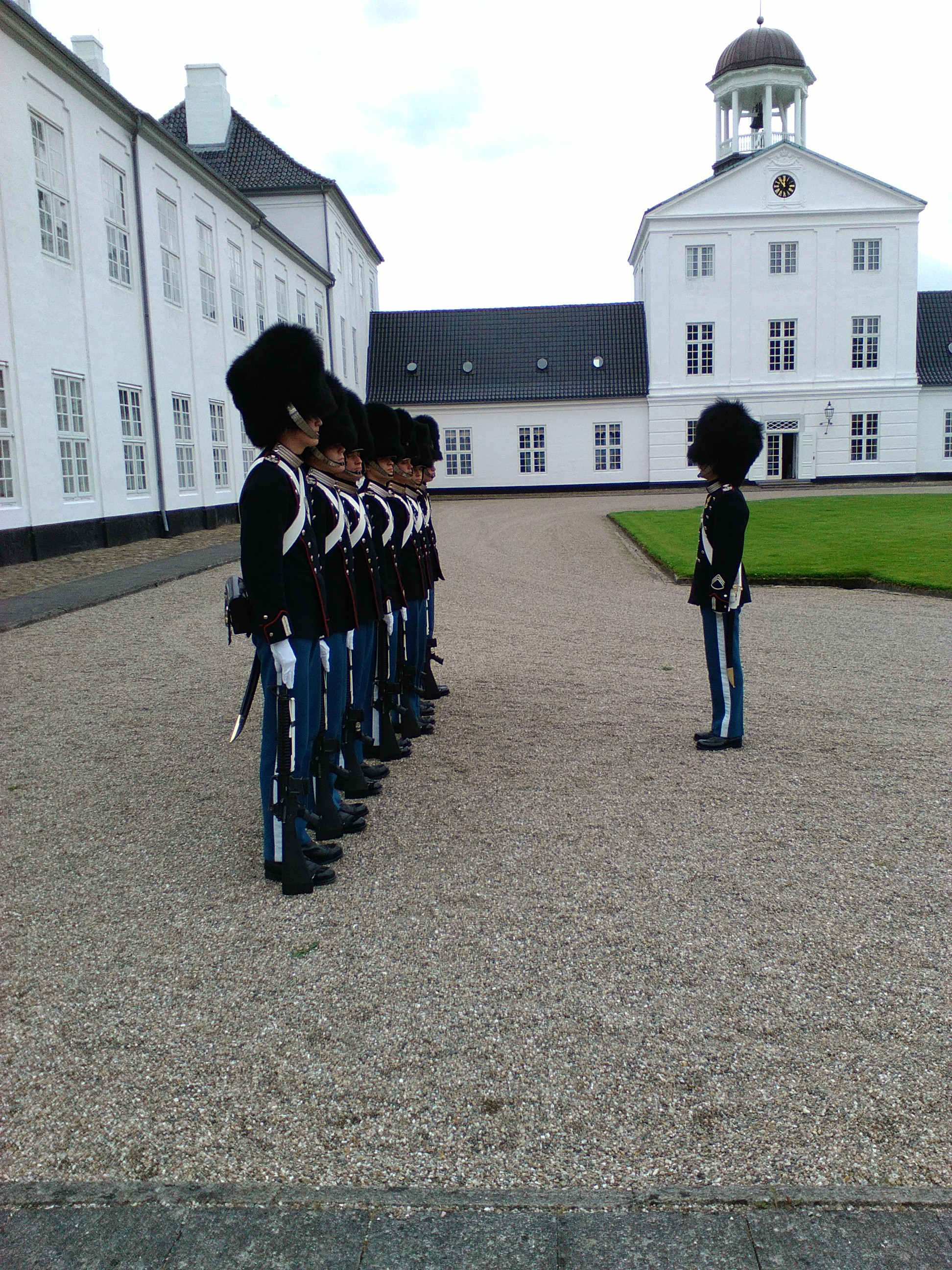 changing of the guard, Gråsten palace, Gråsten, Denmark